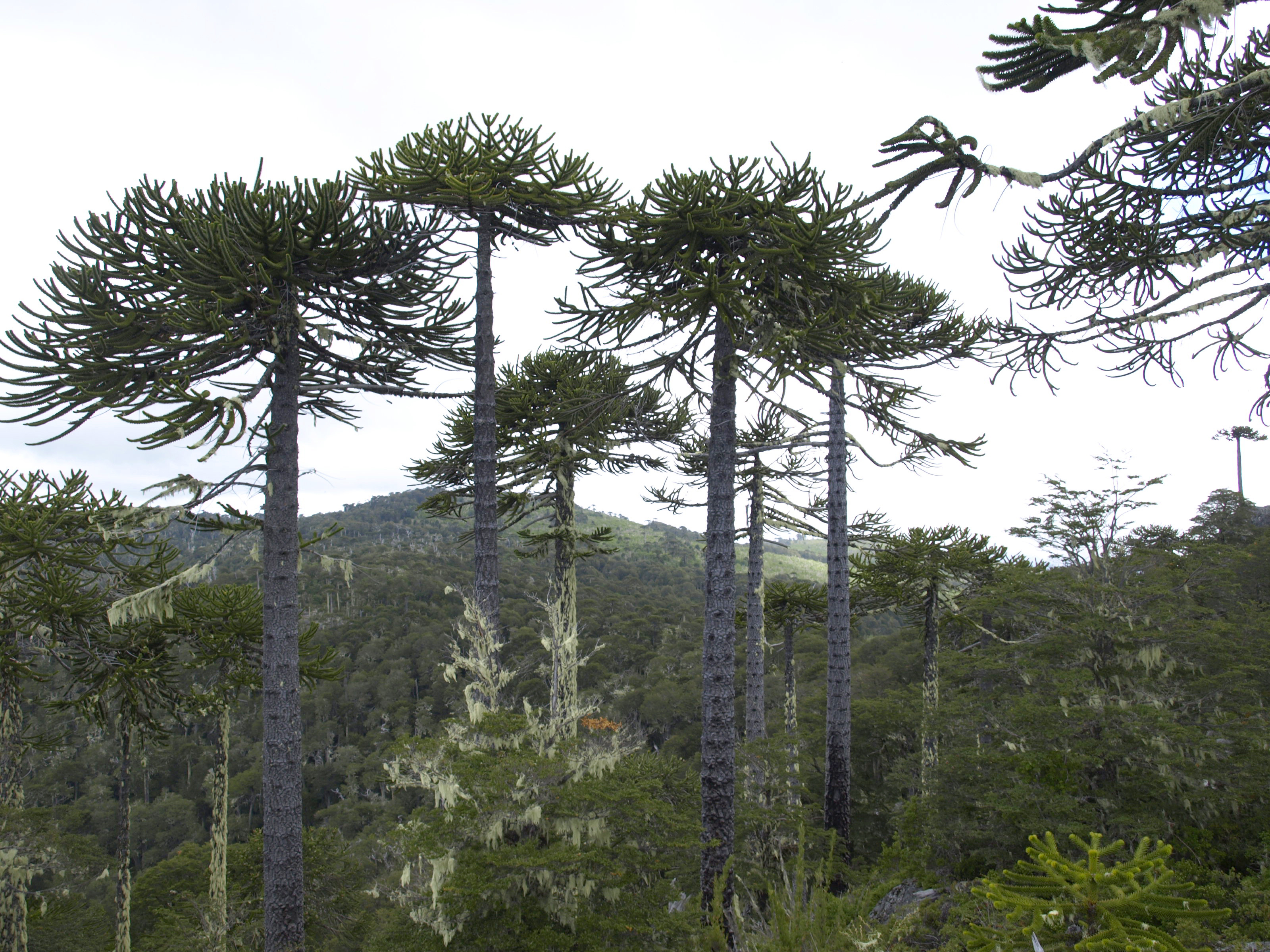 Mixed forest of Araucaria and coigüe in Nahuelbuta National Park, Chile. In the Cordillera de Nahuelbuta (Nahuelbuta Range) of the Cordillera de la Costa System (Chilean Coast Ranges).